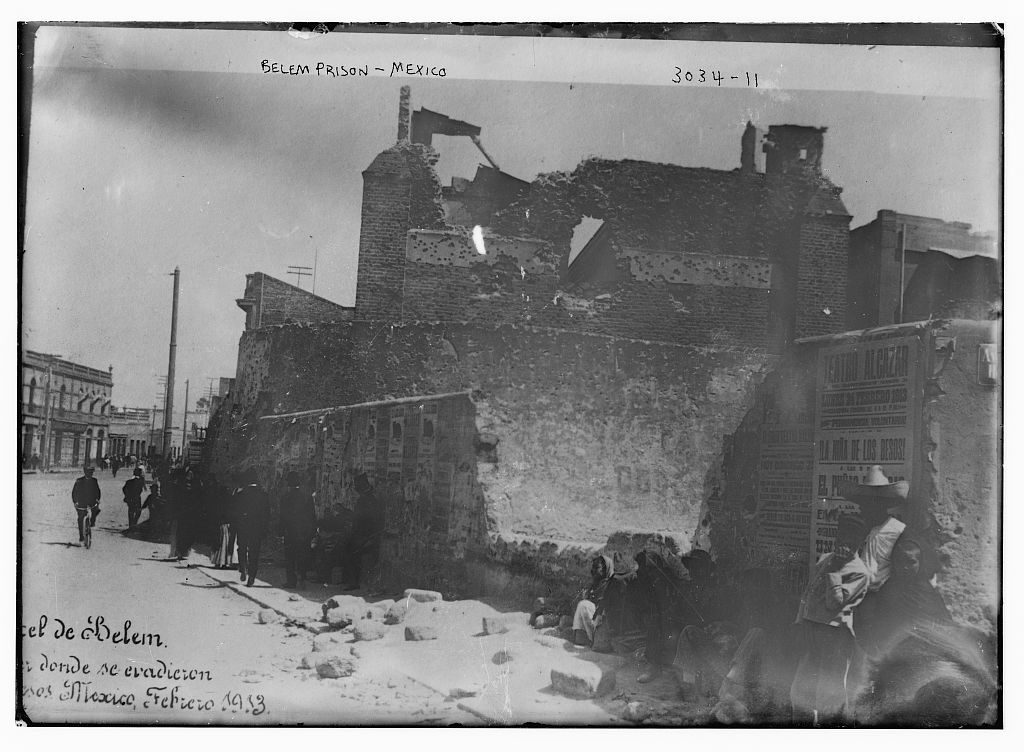 Belem Prison in 1913 in Mexico (LOC) Bain News Service,, publisher. Belem Prison -- Mexico [between ca. 1910 and ca. 1915] 1 negative : glass ; 5 x 7 in. or smaller. Notes: Title from unverified data provided by the Bain News Service on the negatives or caption cards. Forms part of: George Grantham Bain Collection (Library of Congress). Format: Glass negatives. Repository: Library of Congress, Prints and Photographs Division, Washington, D.C. 20540 USA, General information about the Bain Collection is available at Persistent URL: Call Number: LC-B2- 3034-11